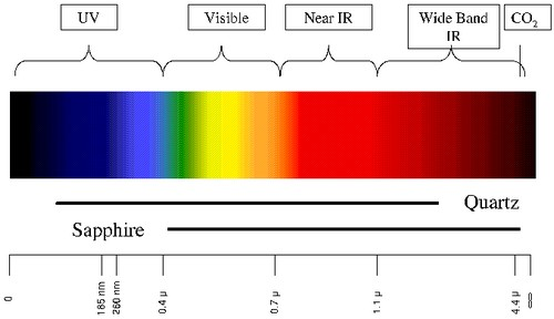 Spectrum Dutch, Jan Nijkamp, Sense-WARE Fire and Gas Detection BV